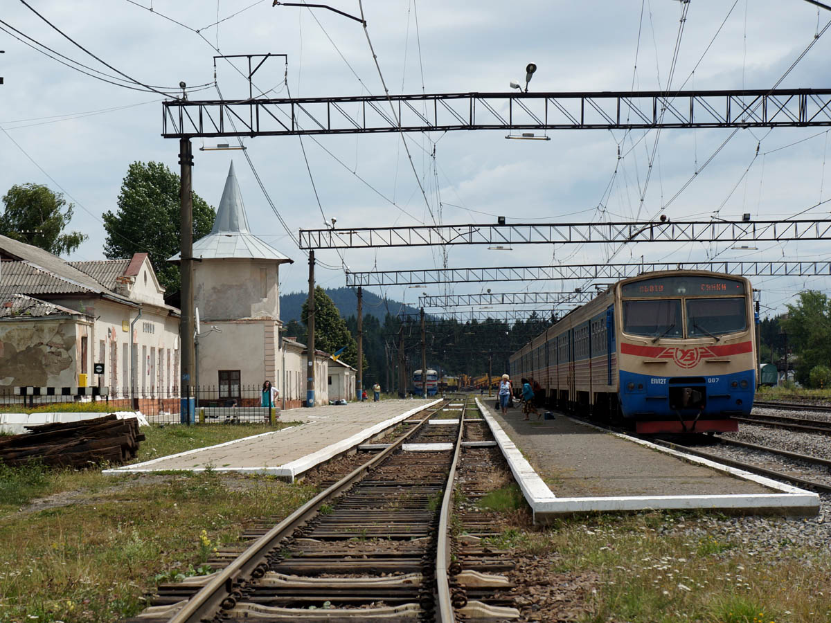 village Sianky, train station AlongCarpathian Expedition 27.07-27.08.2013